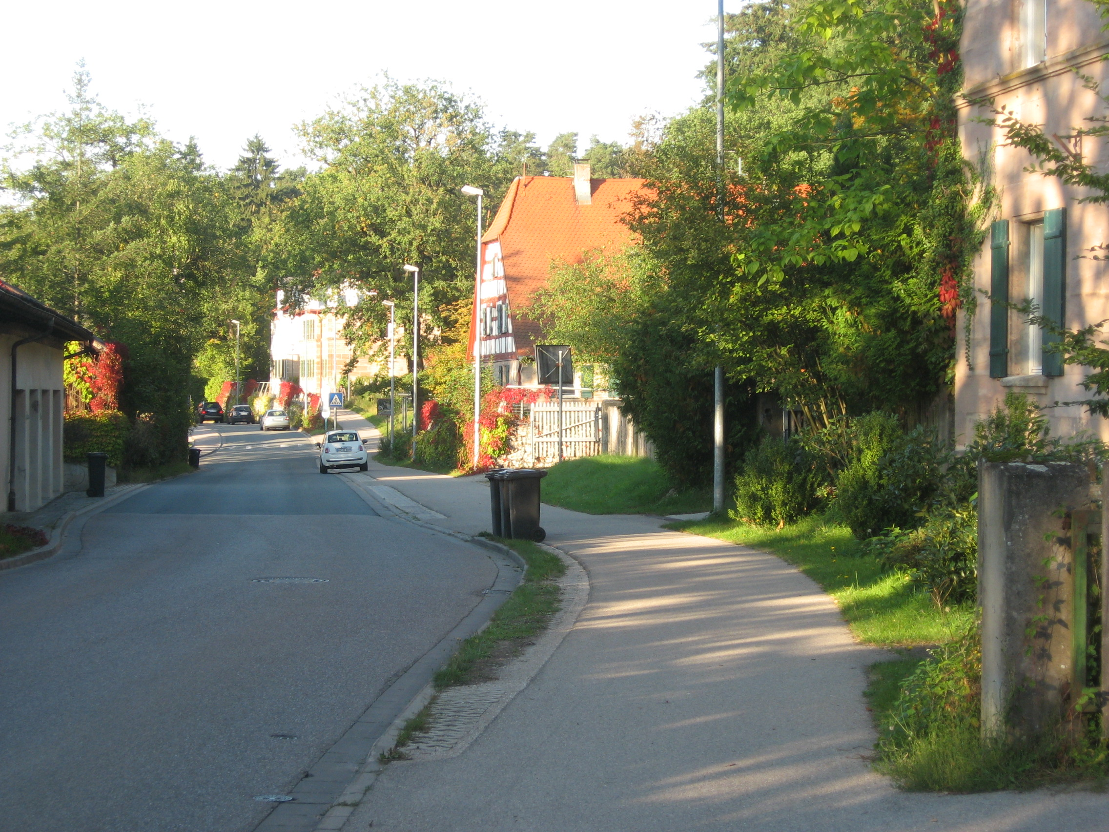 Barnsdorf, part of Roth (Bavaria, Germany), center, from south